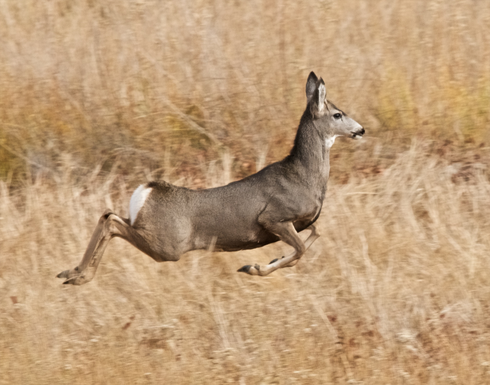 Stotting mule deer. Seen at Pahranagat National Wildlife Refuge, Nevada.